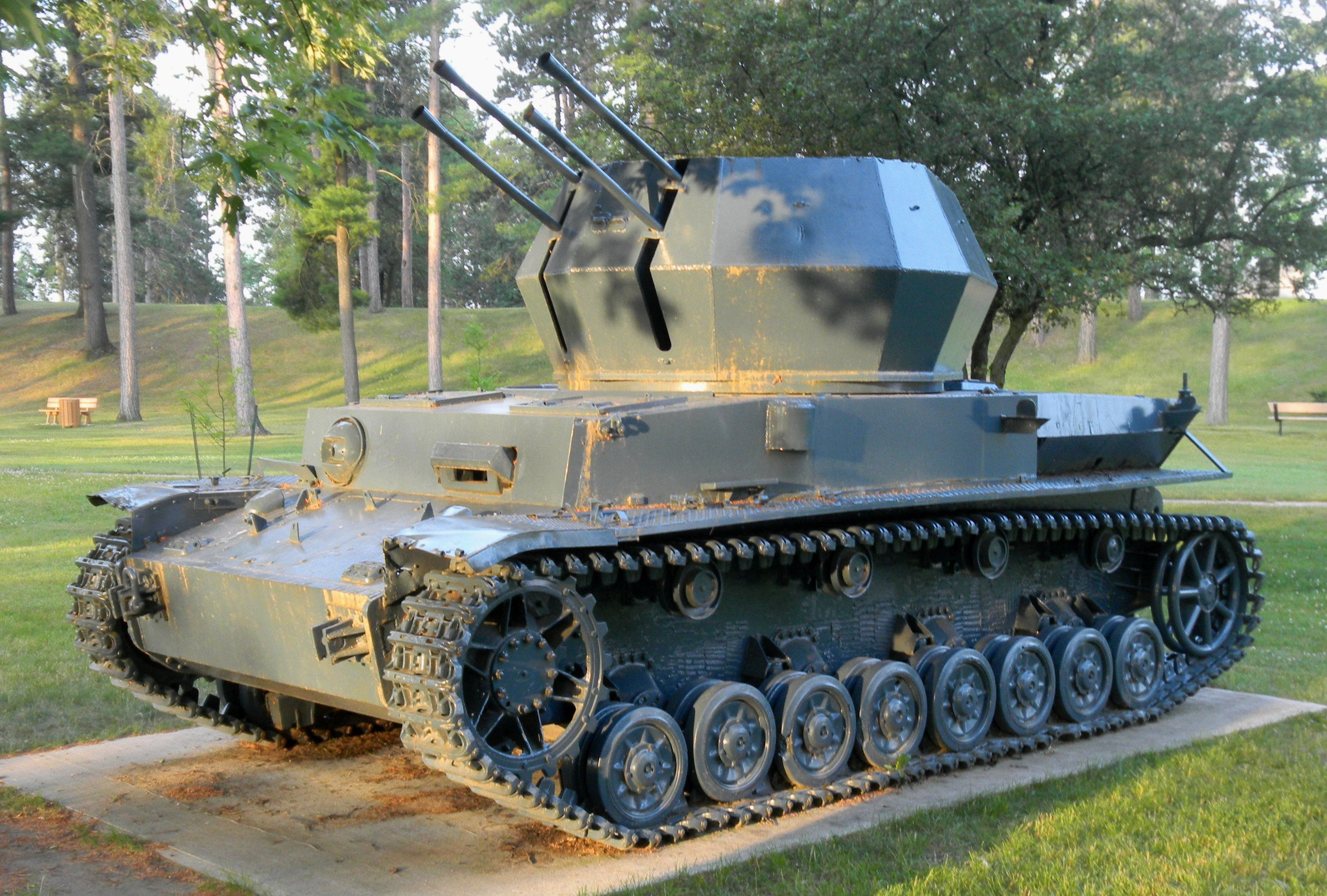 Wirbelwind, WWII German Self-Propelled four-barrelled Anti-Aircraft Gun on display at the CFB Borden Military Museum, Ontario, Canada